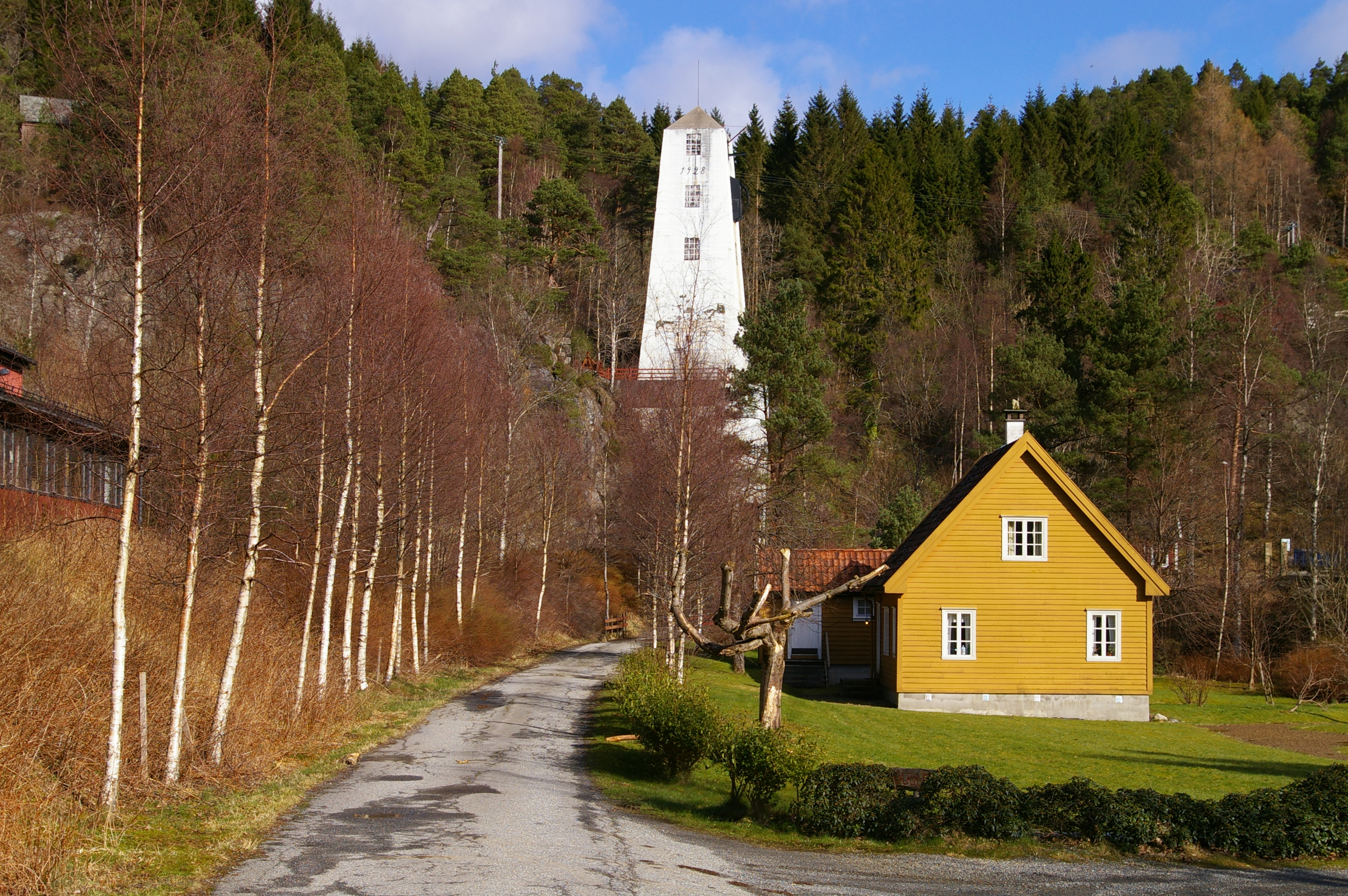 The elevator tower at Stordø Kisgruber at Litlabø, Stord.